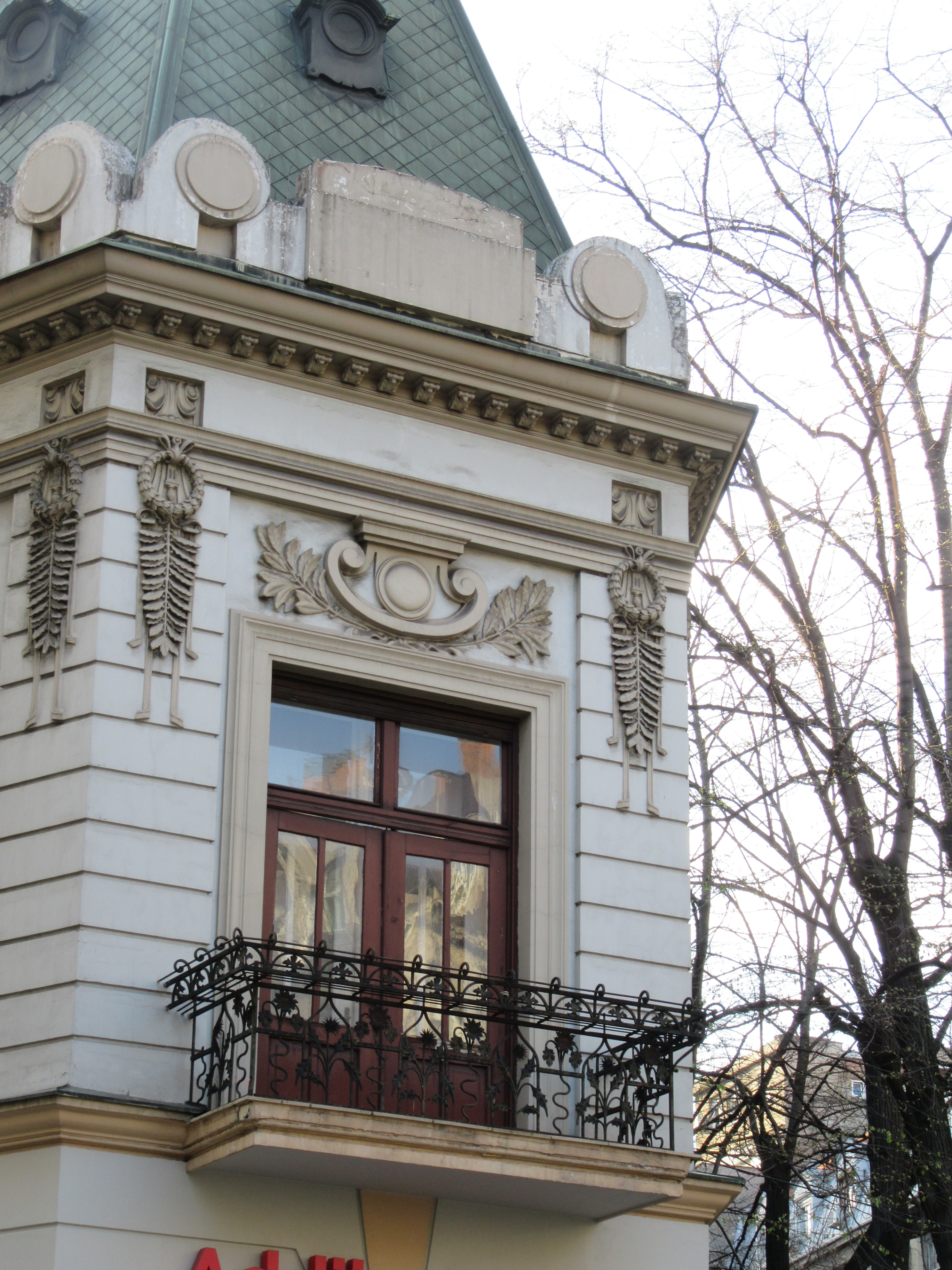 House of Jovan Smederevac, balcony, Makedonska street, Belgrade, Serbia, 2019. Srpski (latinica): Kuća Jovana Smederevca, balkon, Makedonska ulica, Beograd, Srbija, 2019.